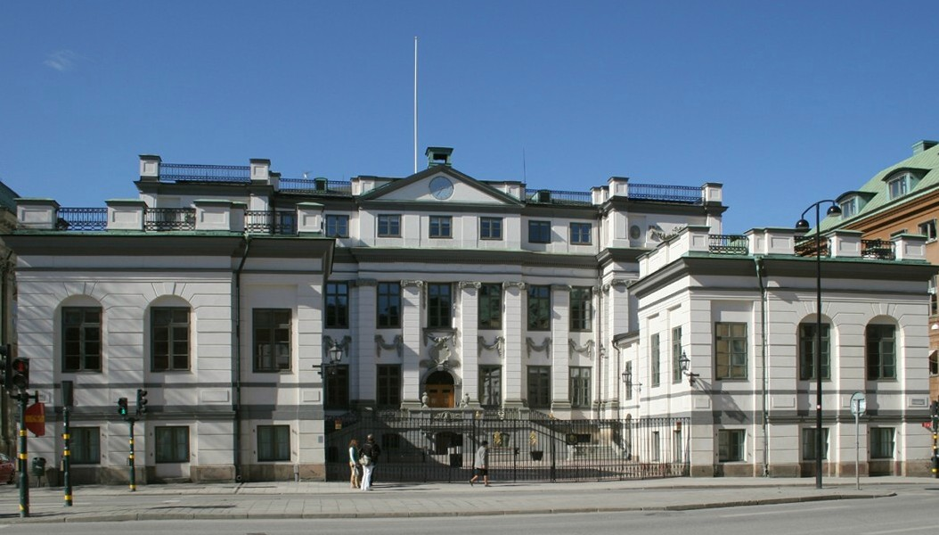 The Supreme Court of Sweden situated in the north-western part of Gamla stan. In the picture's left you can spot Riddarhuset.